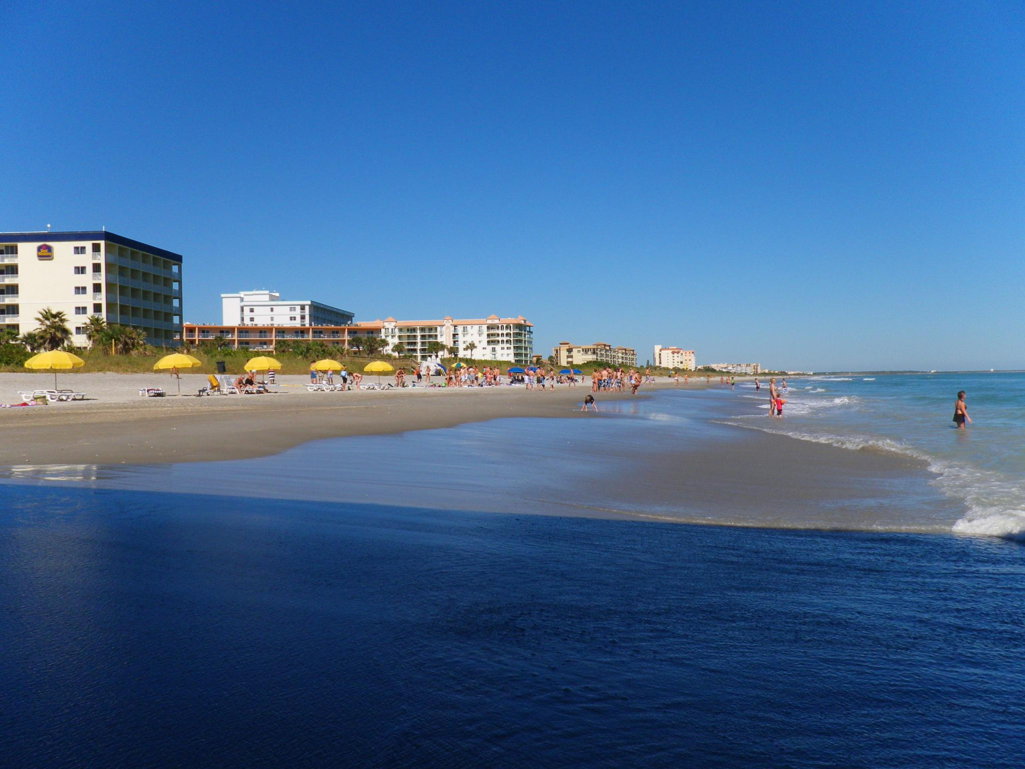 Cocoa Beach at Lori Wilson Park